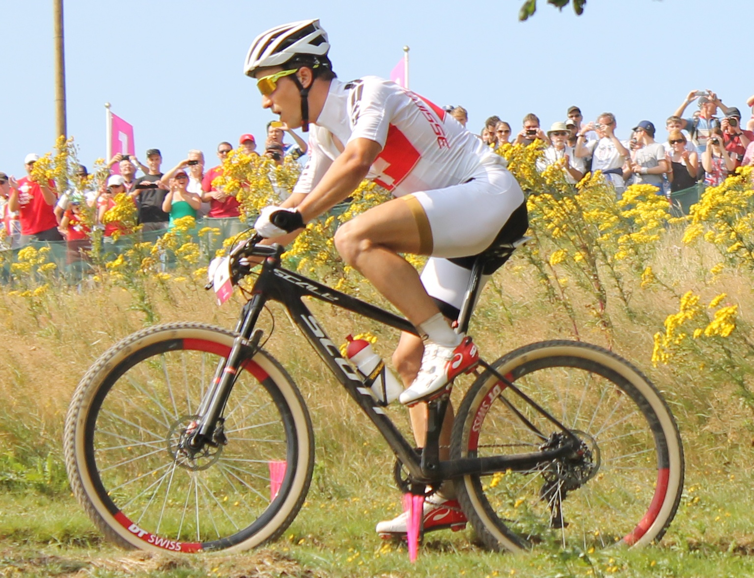 Cycling at the 2012 Summer Olympics – Men's cross-country Nino Schurter (2) (SUI) IMG_4276